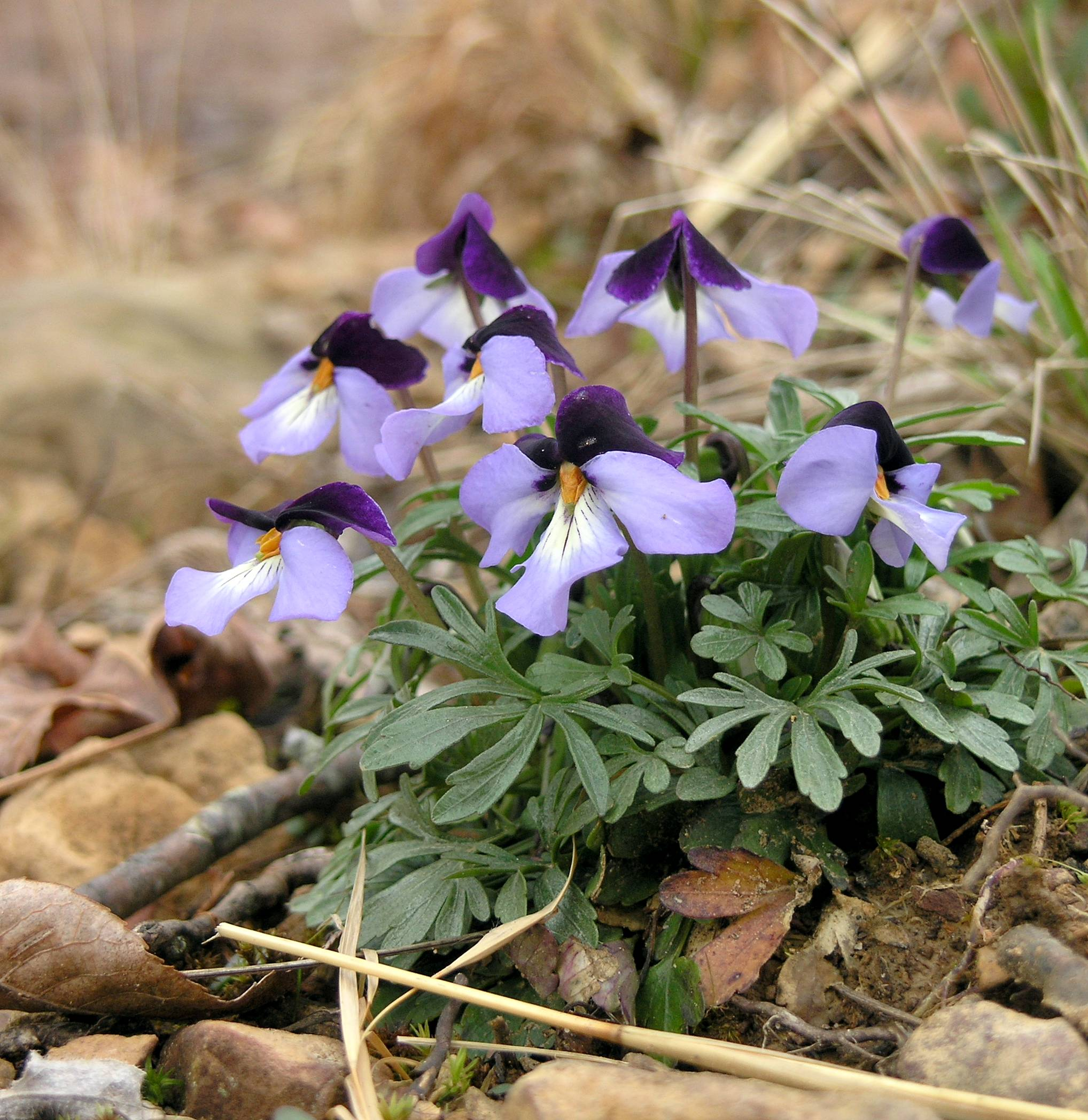 A common Ozarks wildflower that grows best in rocky and dry woodlands.